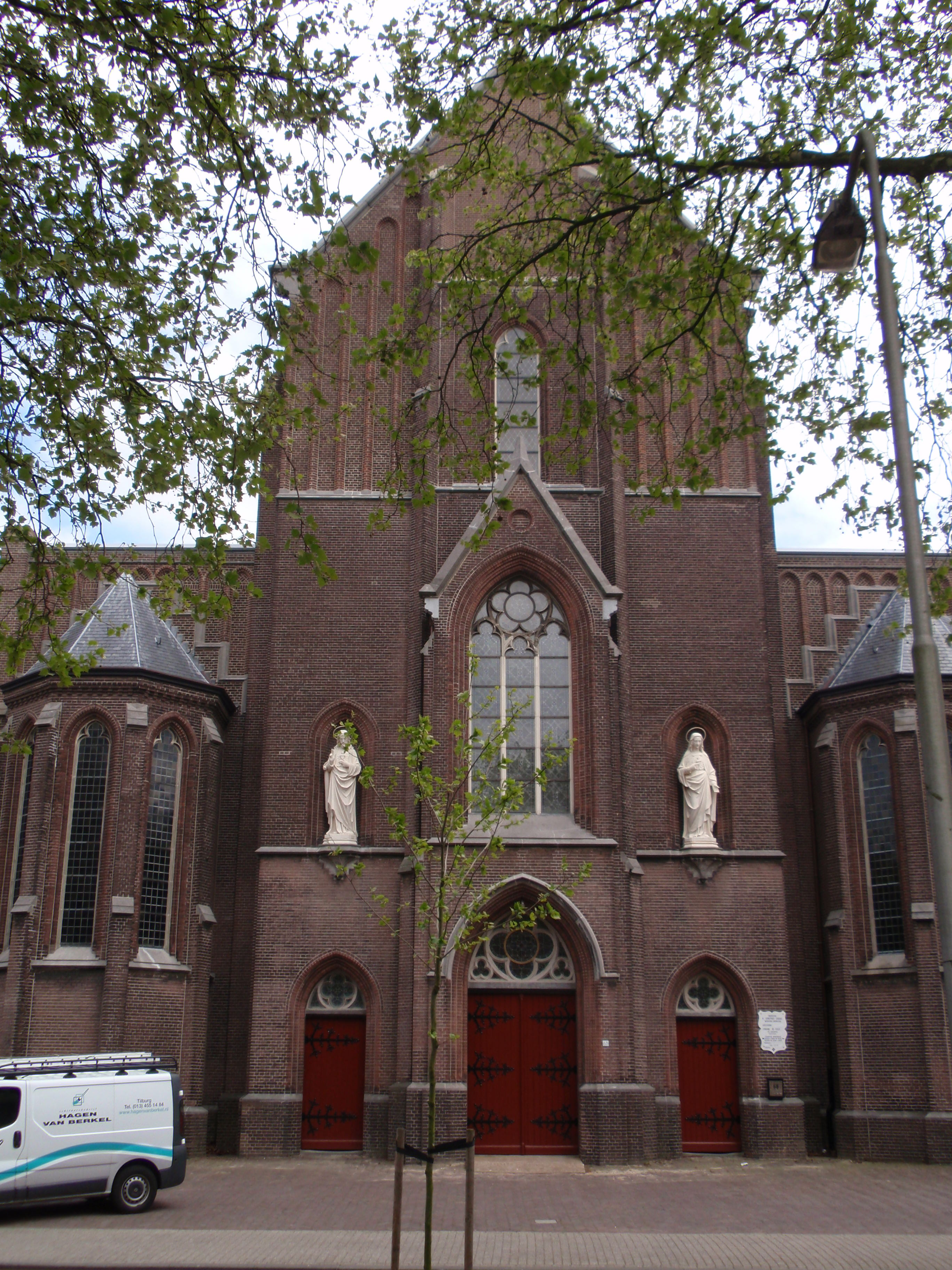 Goirkese Church - Tilburg